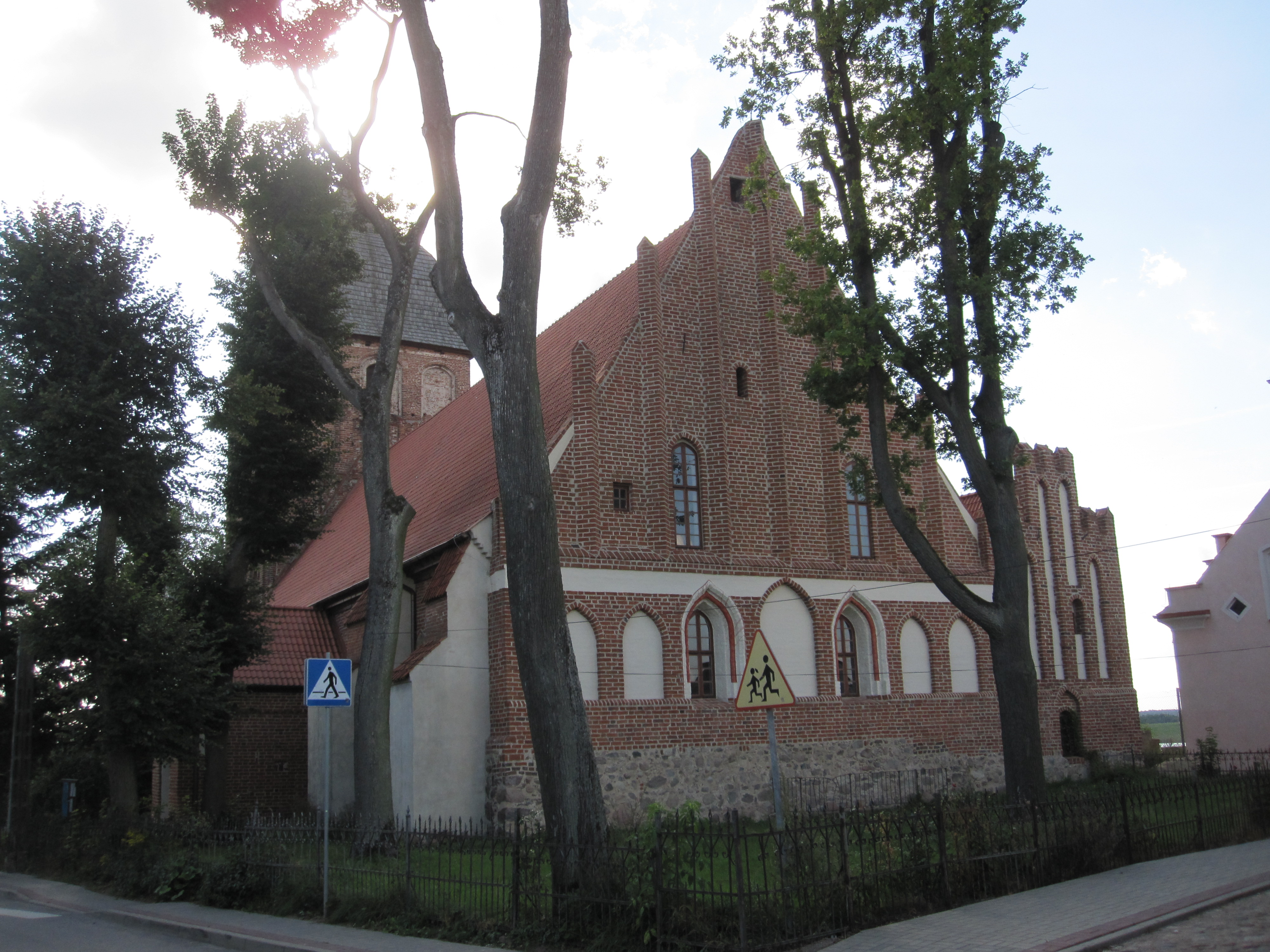 Lutheran church in Pasym